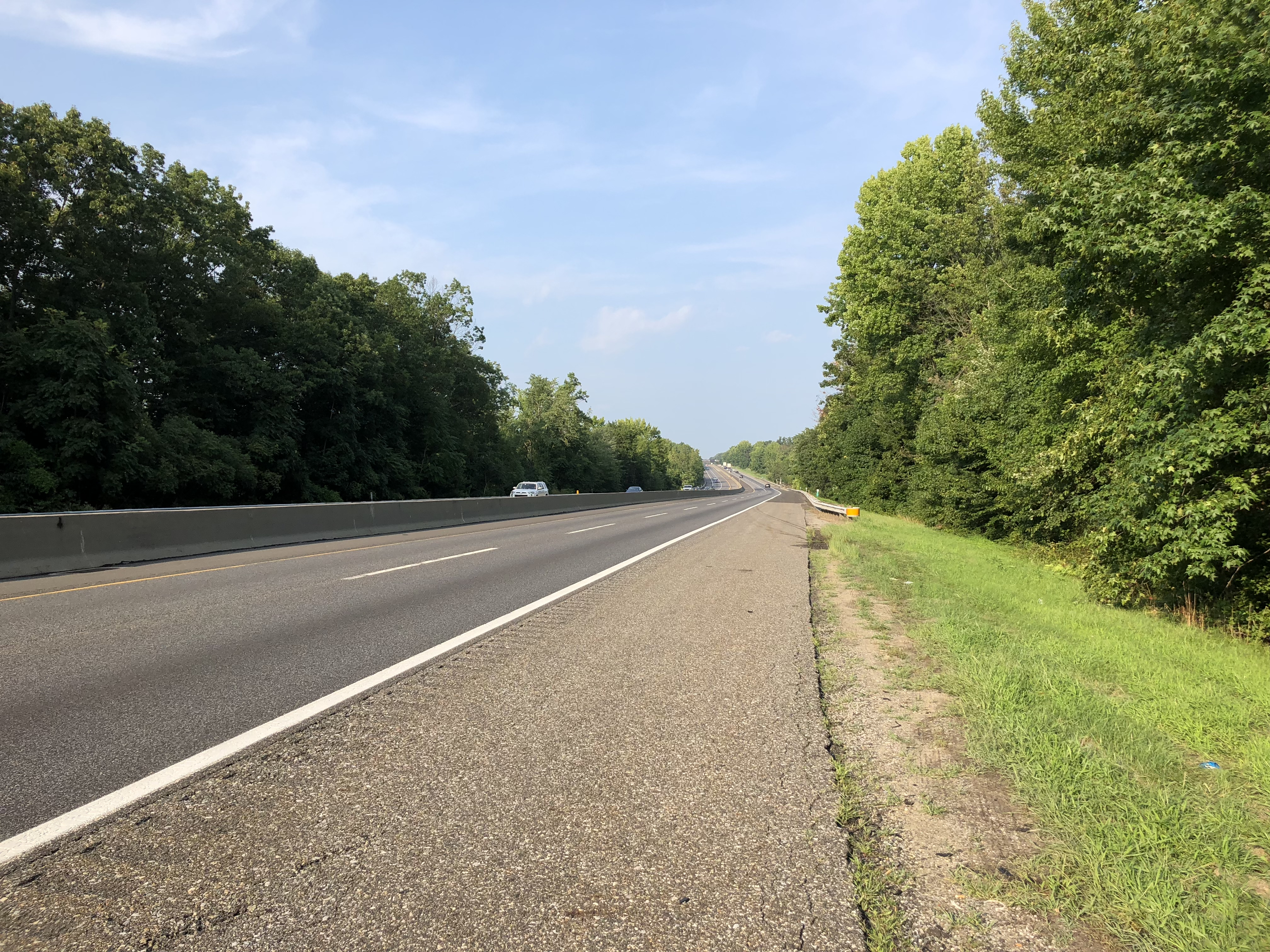 View north along New Jersey State Route 700 (New Jersey Turnpike) between the John Fenwick Service Area and Exit 2 in Pilesgrove Township, Salem County, New Jersey